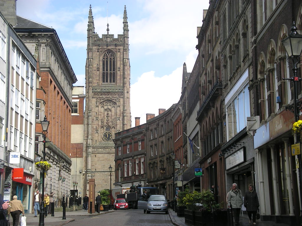 Derby Cathedral seen from Irongate